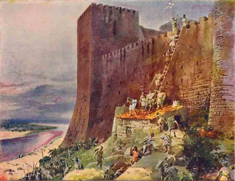 Conquest of Santarém